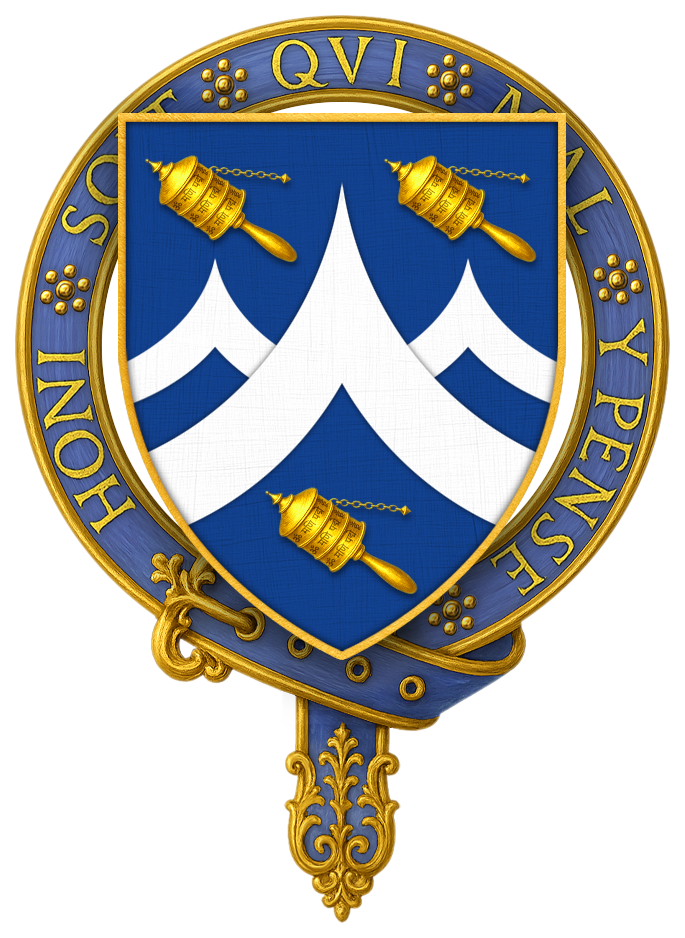 Coat of Arms of Sir Edmund Hillary, KG, ONZ, KBE, OSN